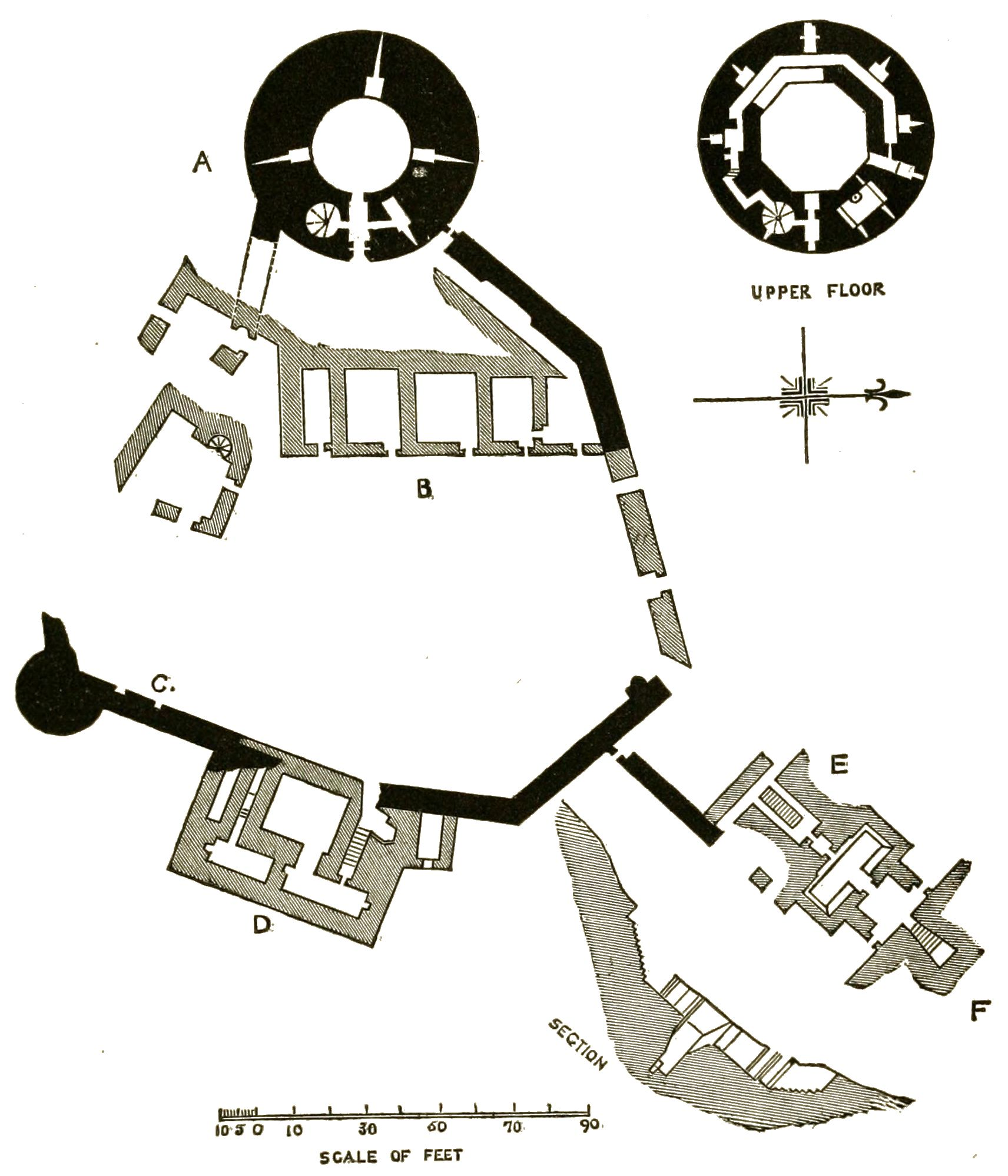 jpg of image on page13 of File:Hawarden Castle (guide).djvu